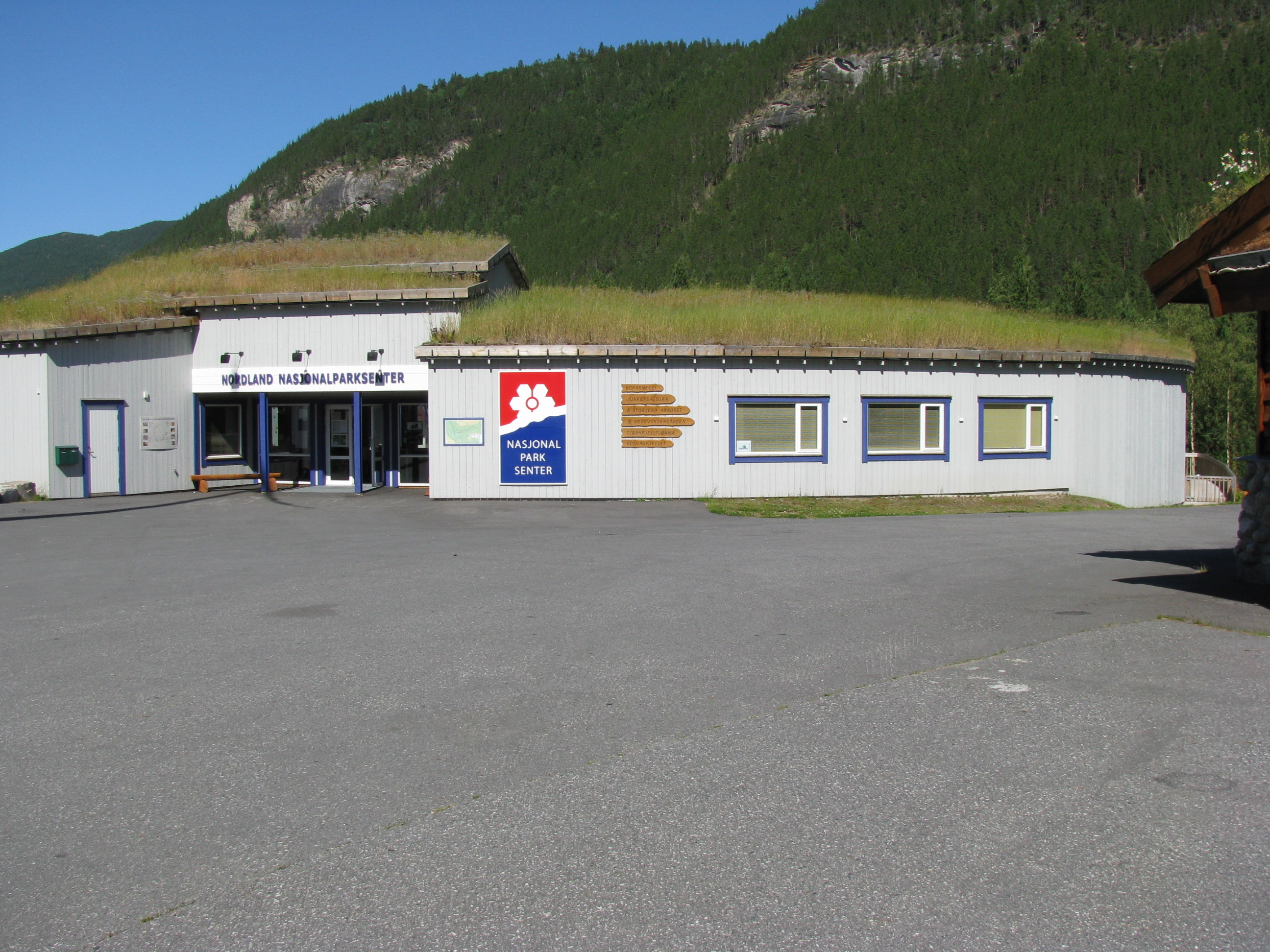 The National Park Center of Nordland, located near the E6 road in Saltdal, Nordland.